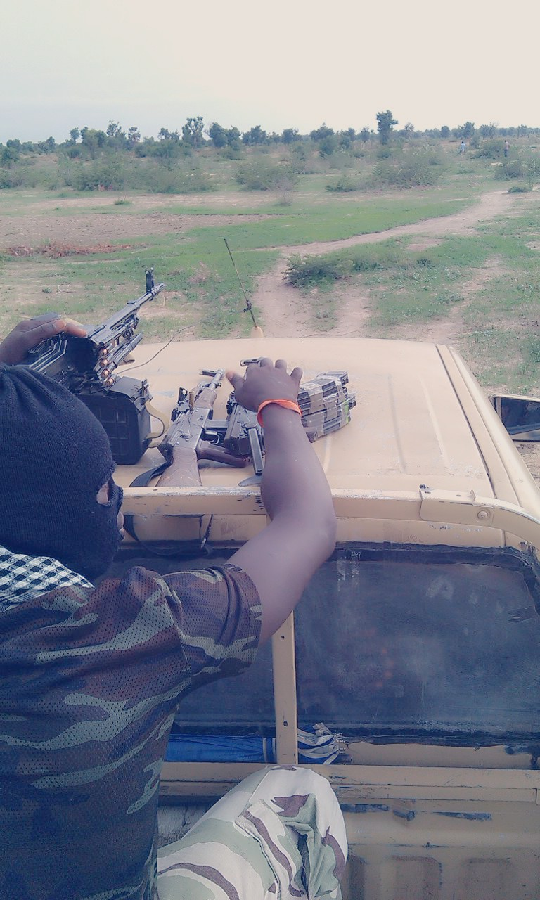 A picture of Nigerian soldiers. War against boko haram terrorism This is an image of "African people at work" from Nigeria